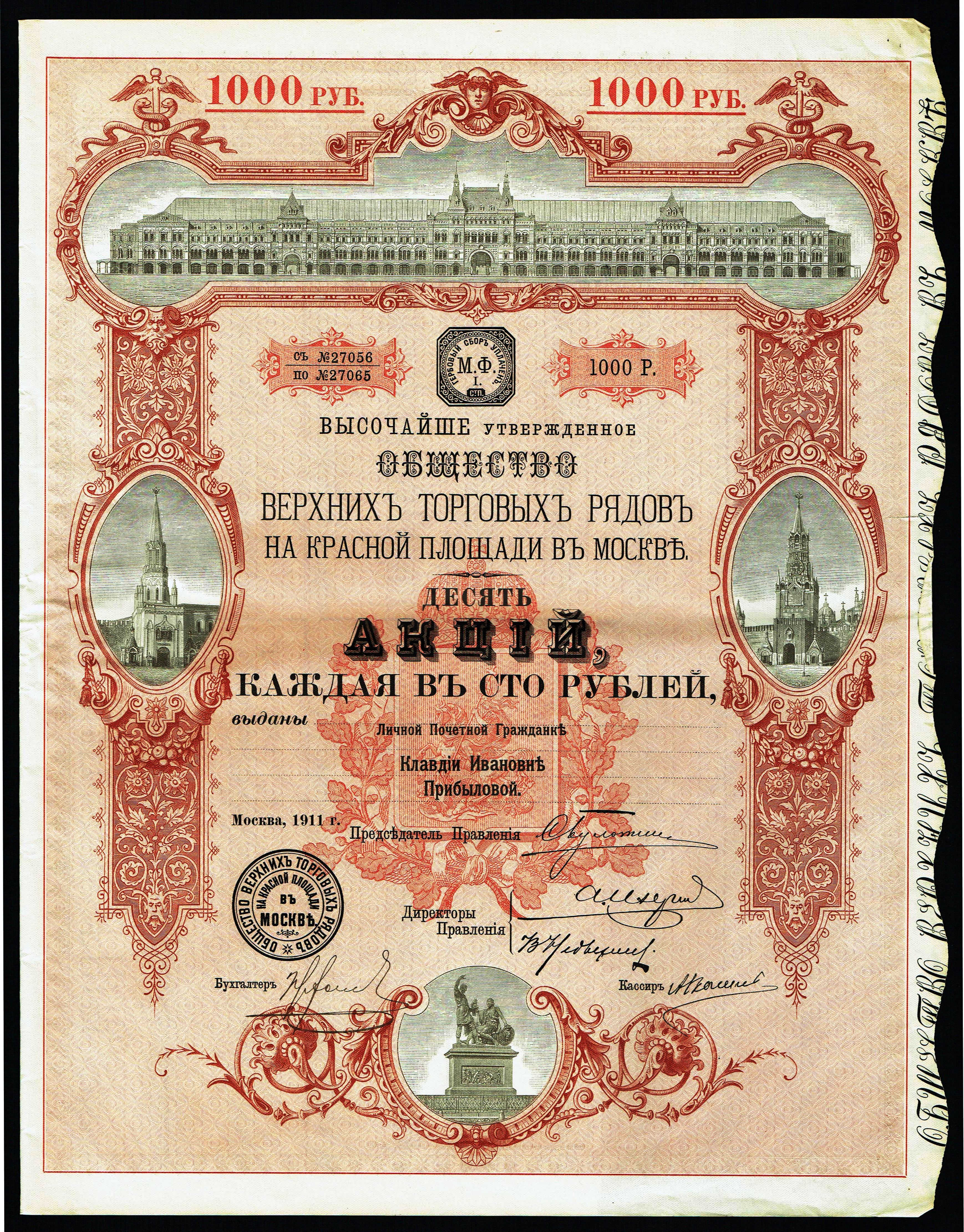 Collective share certificate of the GUM department store, issued 1911